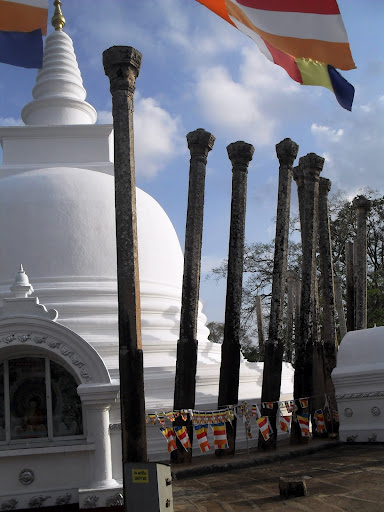 Thuparama Stupa in Anuradhapura, Sri Lanka